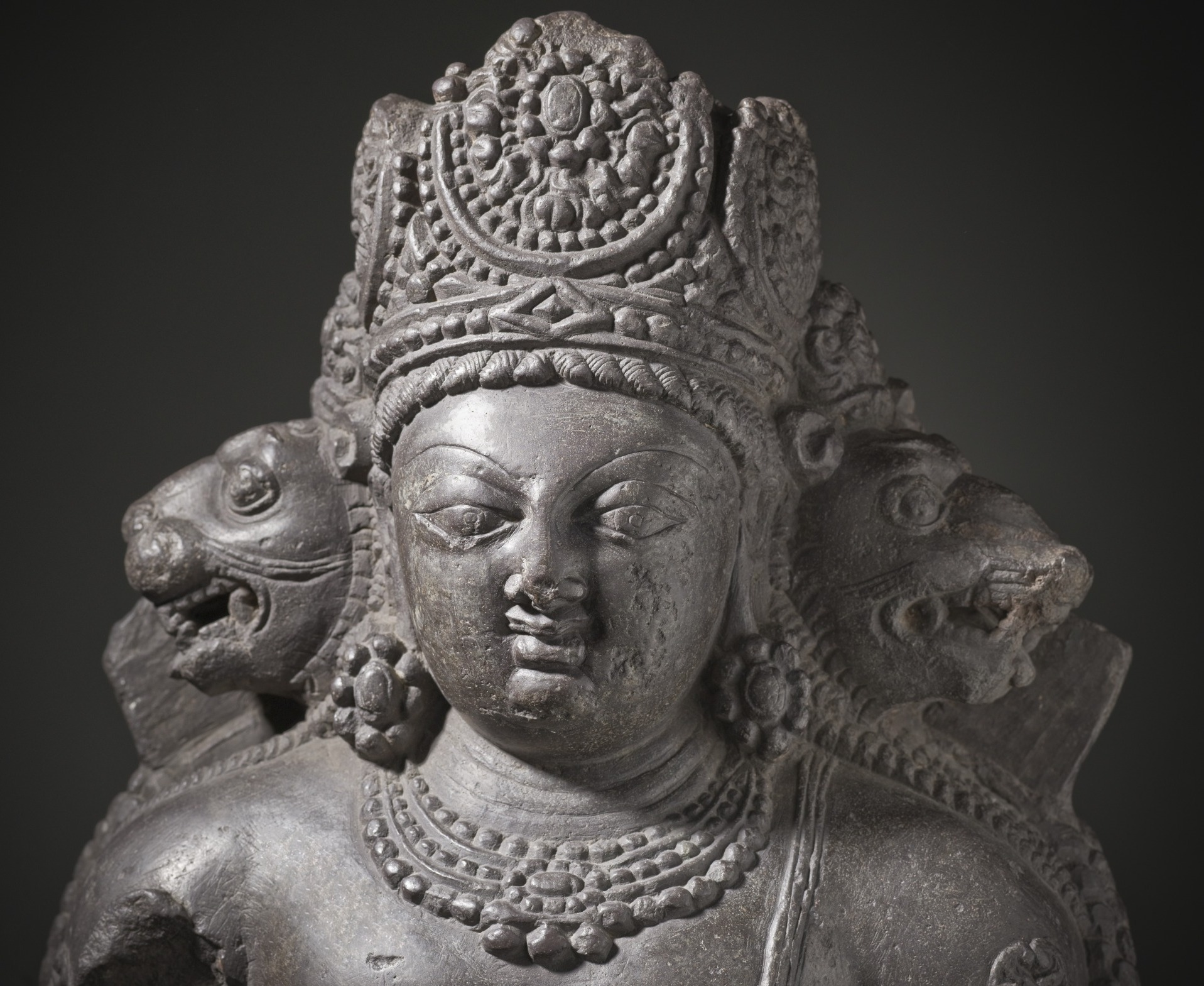 India, Jammu and Kashmir, Kashmir region, 875-900 Sculpture Chlorite schist From the Nasli and Alice Heeramaneck Collection, Museum Associates Purchase (M.69.13.2) South and Southeast Asian Art